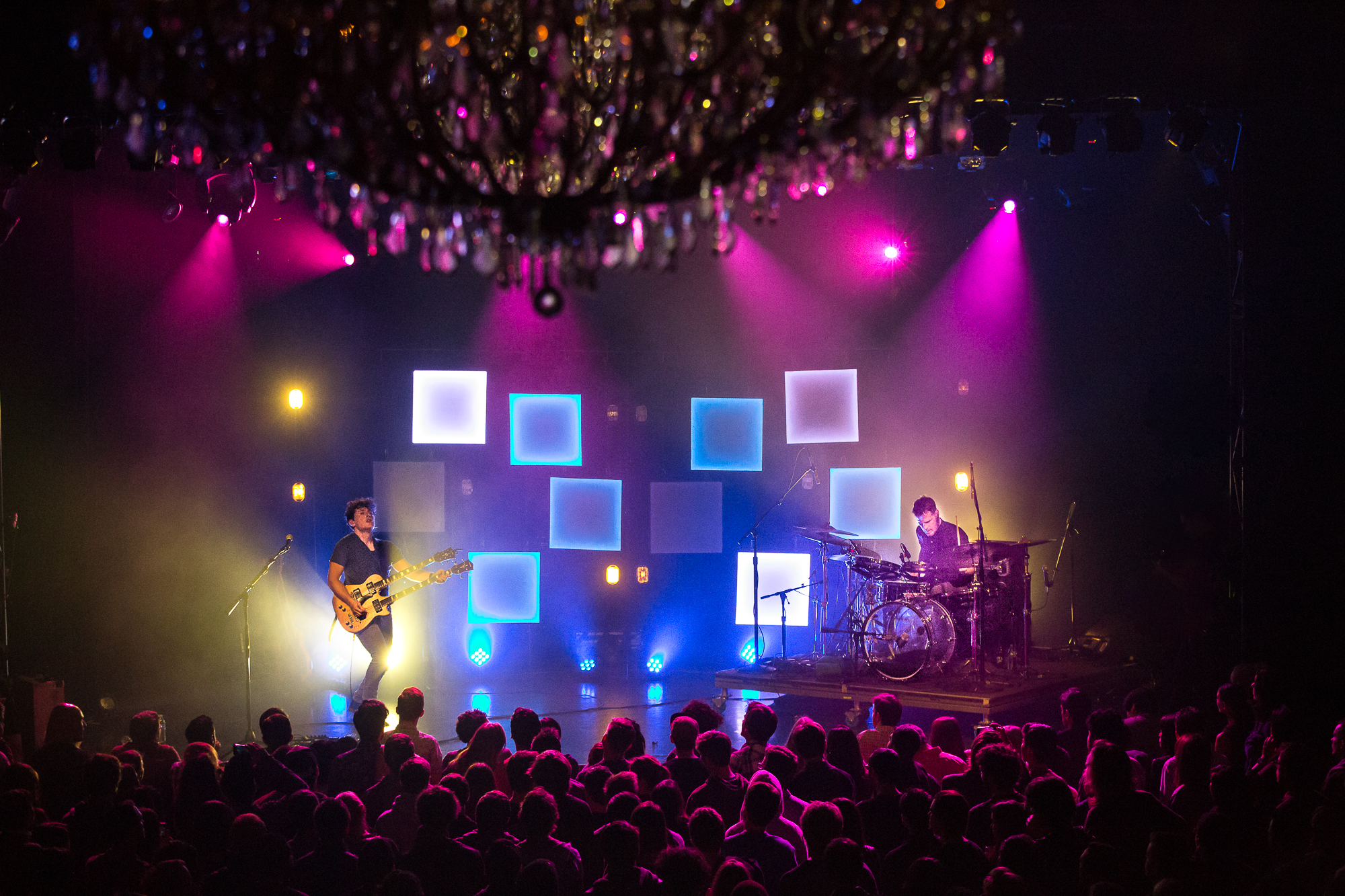 El Ten Eleven music group at the El Rey Theater, Los Angeles